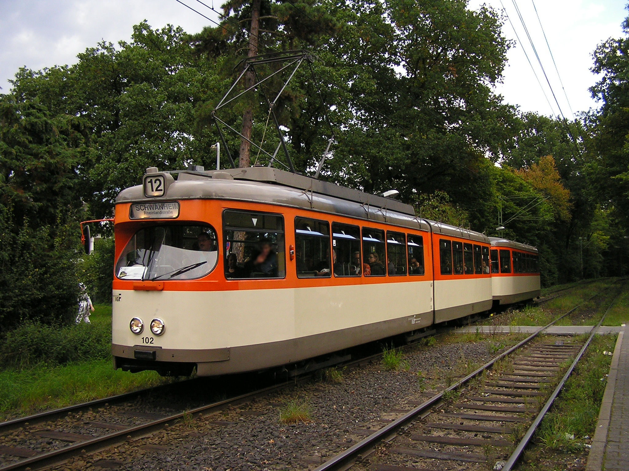 On the day of traffic history 2008 four historic tram cars of Frankfurt ran as line 12 from Hugo-Junkers-Straße to Rheinlandstraße (transport museum). The photo shows a M car with m trailer.